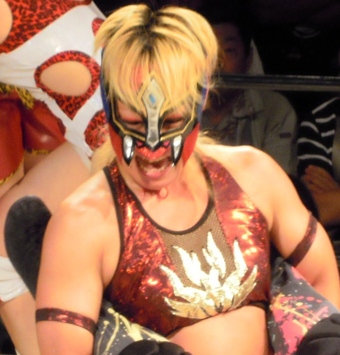 Japanese professional wrestler,LEON. Aug 29 2010, JWP Tokyo Kinema Club.